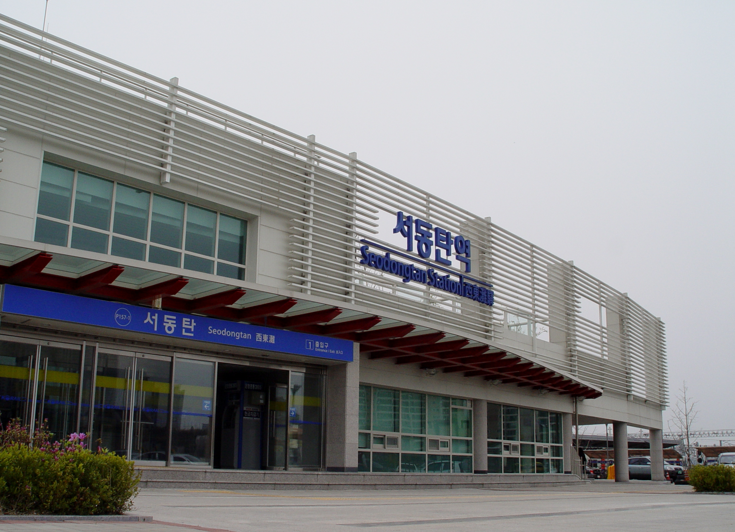 Seodongtan Station entrance